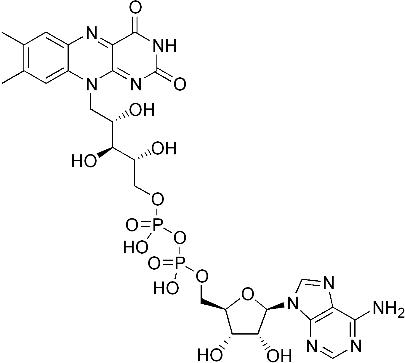 Chemical structure of flavin adenine dinucleotide created with ChemDraw.